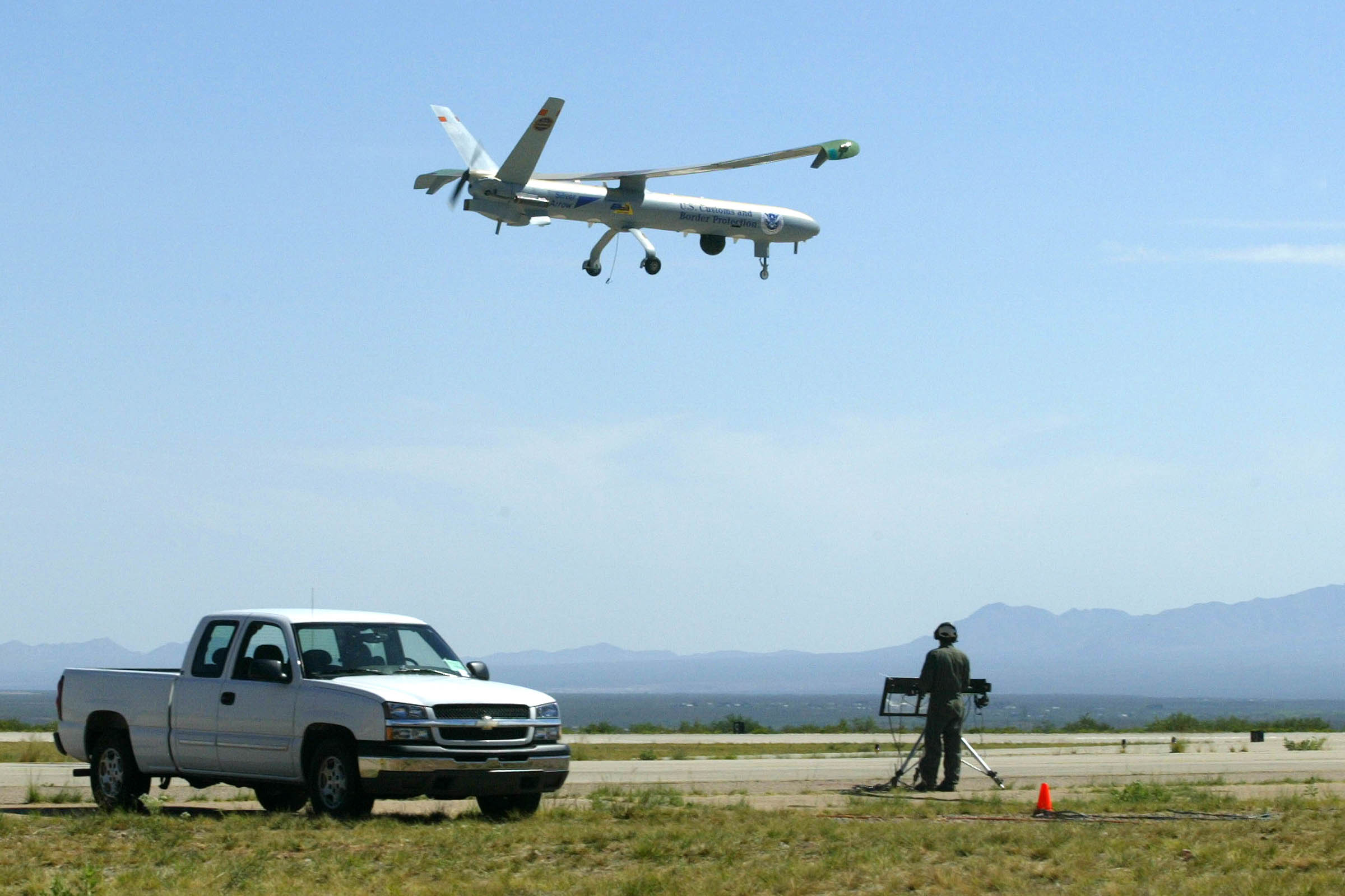 An Hermes 450 Unmanned Aerial Vehicle (UAV) of U.S. Customs and Border Protection taking off, with a CBP Border Patrol agent using the remote to steer the UAV.